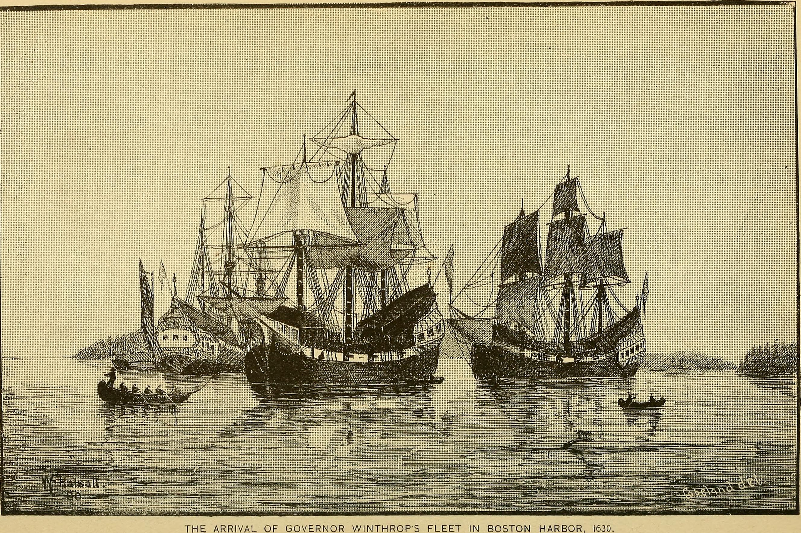 Title: King's handbook of Boston harbor Year: 1882 (1880s) Authors: Sweetser, M. F. (Moses Foster), 1848-1897 King, Moses, 1853-1909 Copeland, Charles, 1858-1929, ill Subjects: Publisher: Cambridge, Mass., Moses King, publisher Text Appearing Before Image: ' Text Appearing After Image: KINGS HANDBOOK OF BOSTON HARBOR M. F. SWEETSER I AUTHOR OF THE ARTIST-BIOGRAPHIES, OSGOODS NEW ENGLAND, WHITIMOUNTAINS, ETC., AND OF PICTURESQUE MAINE, ETC. 5- Jlly 24- I went a-frolicking on the water. Diary of Col. Samuel Pierce, Dorchester. Every sunrise in New England is more full of wonder than the Pyramids,every sunset more magnificent than the Trajzsfiguration. Why go to see the Bay ofNaples when we have not yet seen Boston Harbor ? James Freeman Clarke. CAMBRIDGE, MASS.MOSES KING, PUBLISHER HARVARD SQUARE BOSTON COLLEGE LIBRARYCHESTNUT HTTX MASS Copyright, 1882, by Moses King. Illustrations bg CHARLES COPELAND, A. B. SHUTE, EDMUND H. GARRETT, FRANK MYRICK, I. F. EATON, AND OTHERS. Plates bg JFranJtltrt Press: THE PHOTO-ENGRAVING CO., RAND, AVERY, AND COMPANY, 67 Park Place, New York. 117 Franklin St., Boston. Jhtocx to Illustrations* JFull=page JHlustrattong. Page Boston Light 217 Boston Yacht-Club House, City Point 1